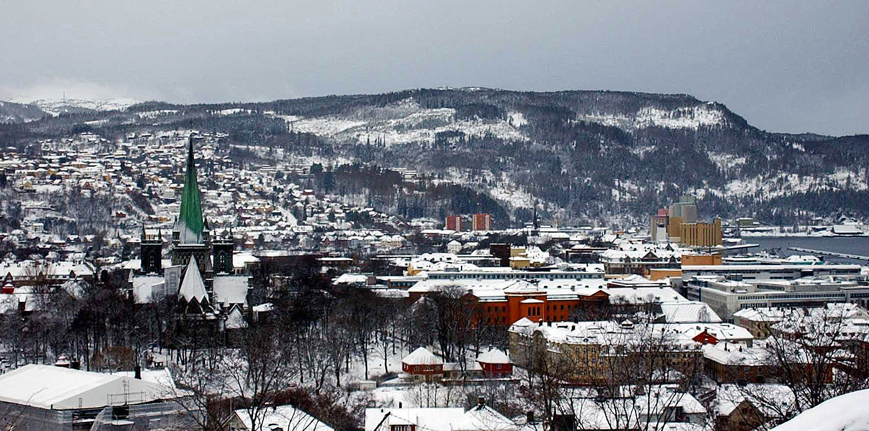 Panorama of , . Improved version of Image:Trondheim, Norway panorama.jpg. Straightened and sharpened.